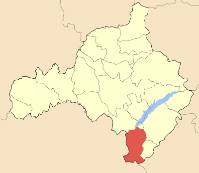 Locator map of Kamvounion municipality (Δήμος Καμβουνίων) at Kozani perfecture, Greece.